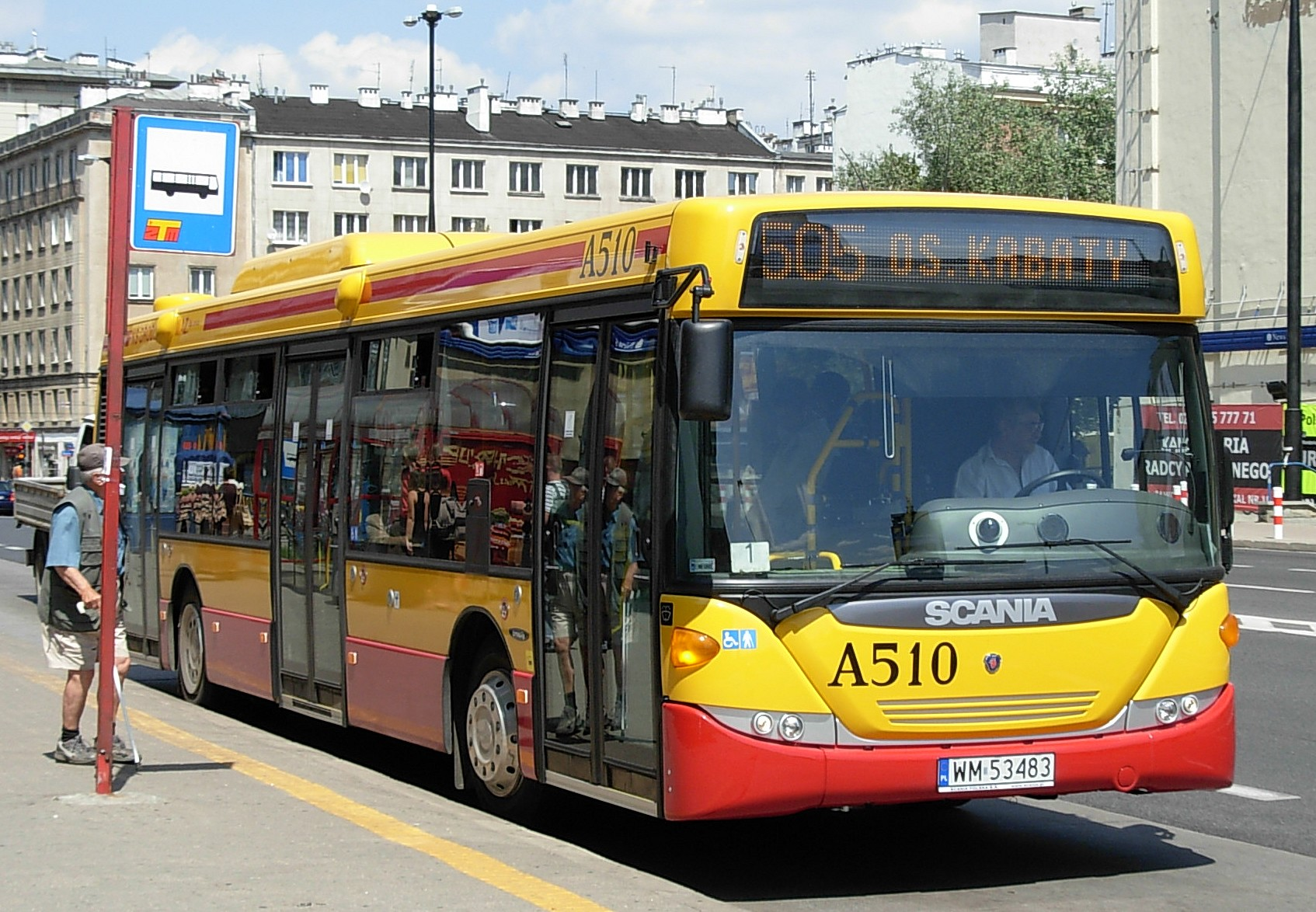 Scania CN270UB 4x2 EB OmniCity bus (#A510) in Warsaw, Poland (Waryńskiego Street). Year built 2007, PKS Grodzisk Mazowiecki company. Made by Scania Production Słupsk.